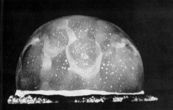 Operation Greenhouse-George. Fireball 20ms after detonation.